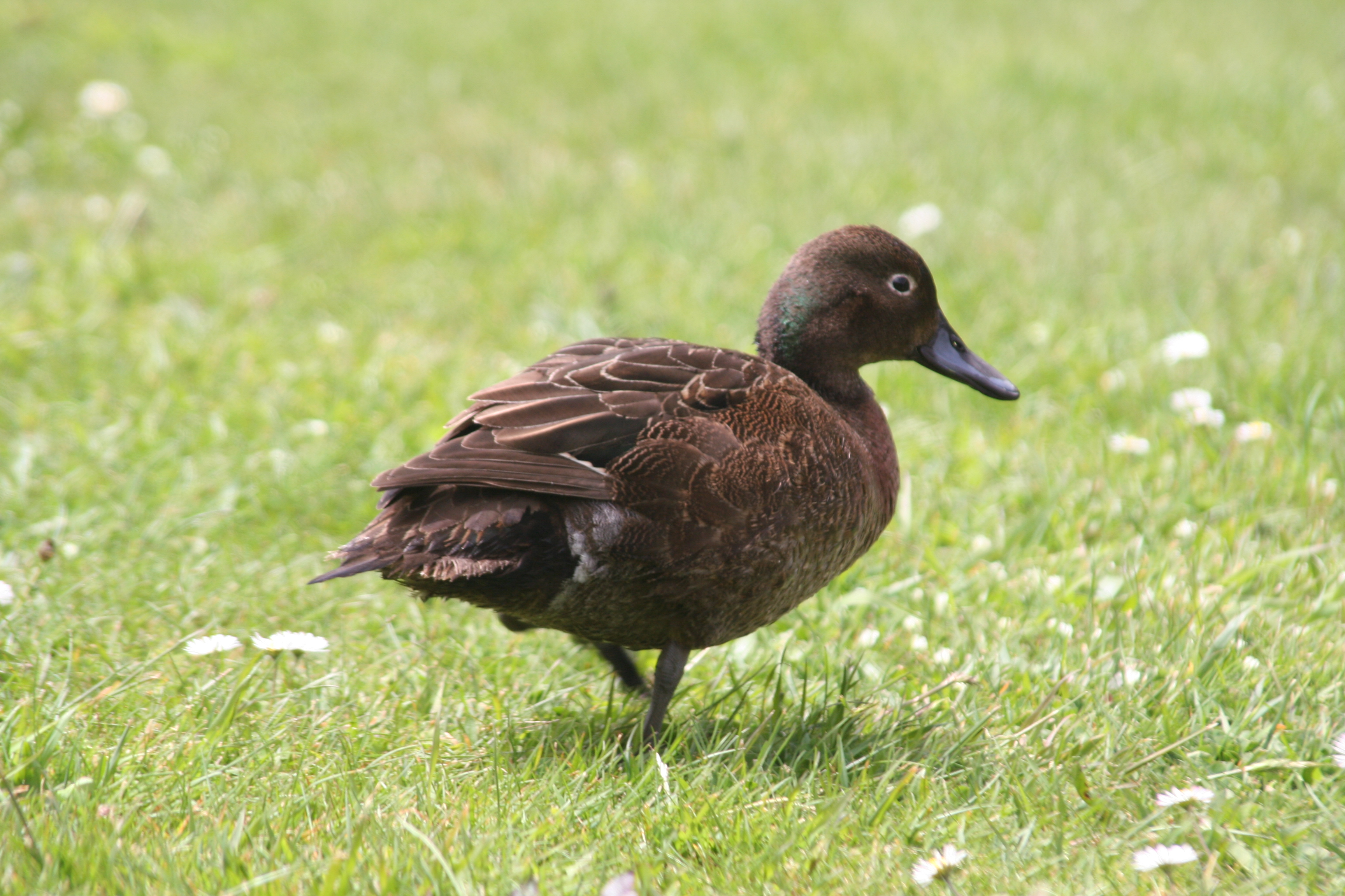 Brown teal (Anas chlorotis) This teal surprised me by land next to me and walking around outside the water in the middle of the day!